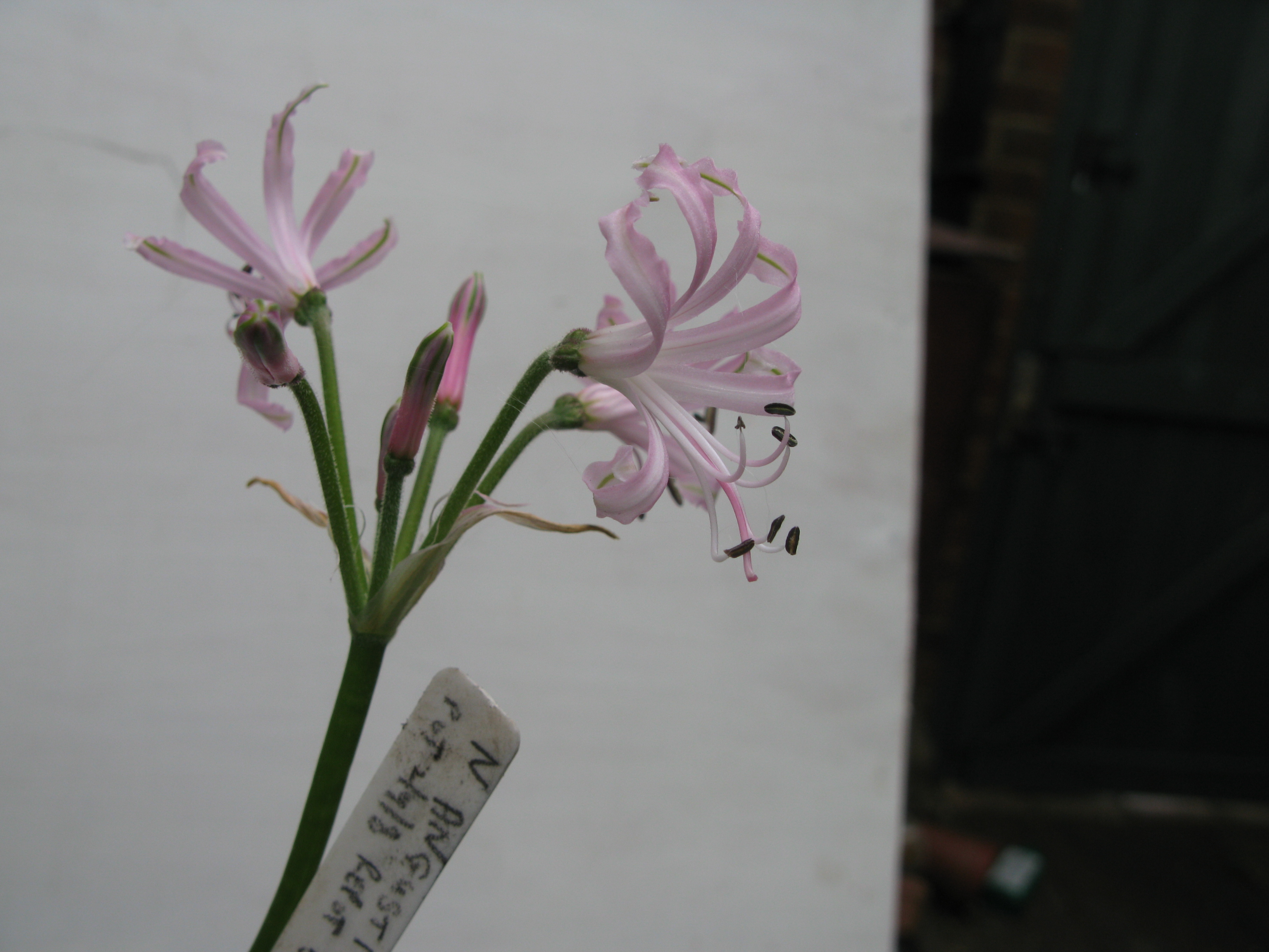 Home Grown Plant